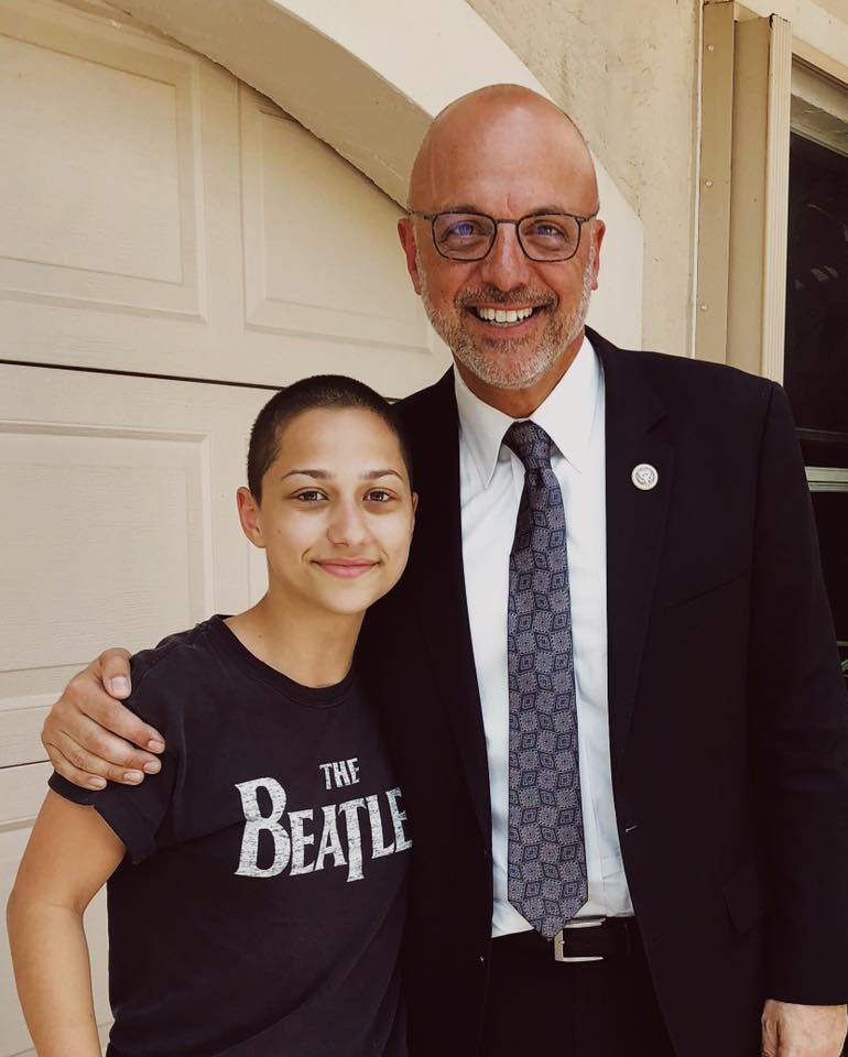 "This afternoon I sat down with some Stoneman Douglas students to listen to them. Their incredible passion for gun violence action has inspired the entire country. I am listening and I am ready to take action in Washington."